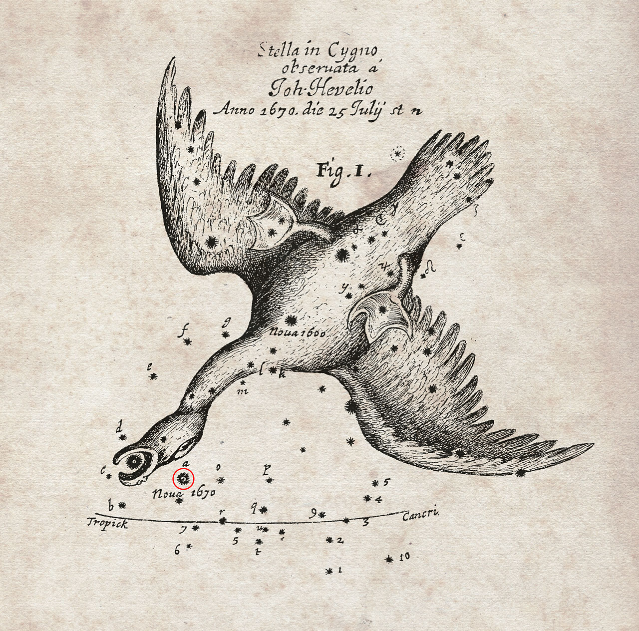 This chart of the position of a nova (marked in red) that appeared in the year 1670 was recorded by the famous astronomer Hevelius and was published by the Royal Society in England in their journal Philosophical Transactions. New observations made with APEX and other telescopes have now revealed that the star that European astronomers saw was not a nova, but a much rarer, violent breed of stellar collision. It was spectacular enough to be easily seen with the naked eye during its first outburst, but the traces it left were so faint that very careful analysis using submillimetre telescopes was needed before the mystery could finally be unravelled more than 340 years later.